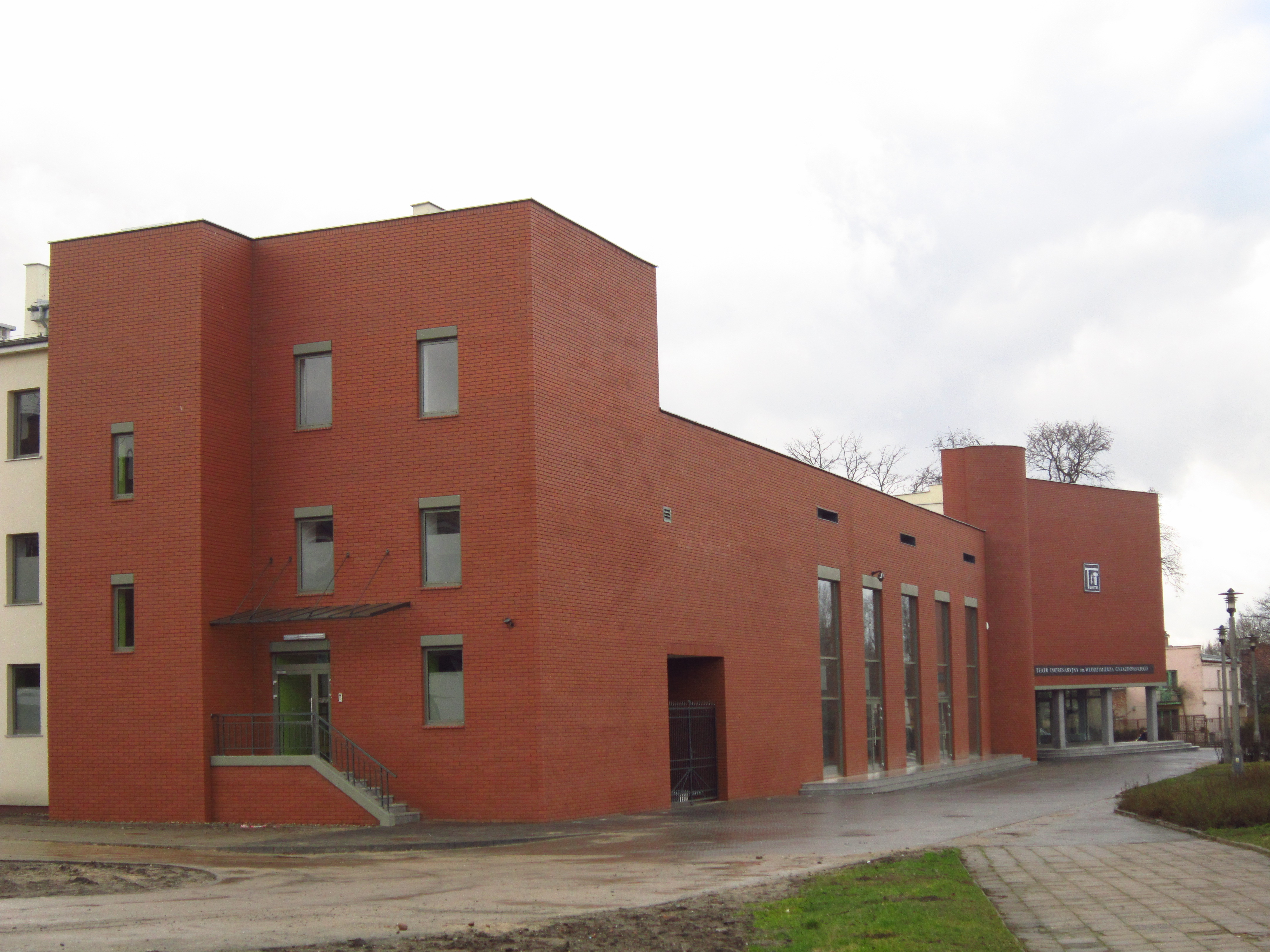 Building of Impresario Theater in Wloclawek after the renovation.